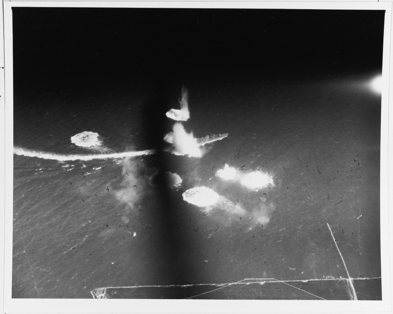 Japanese destroyer under air attack off Southern Mindoro on 26 October 1944, during the pursuit of the Japanese fleet after the main battles. Photographed by a plane from USS COWPENS.